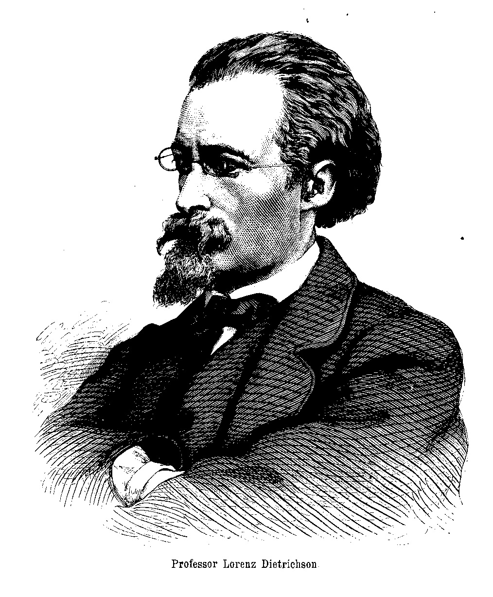 Norwegian historian of art Lorentz Dietrichson. Engraving.